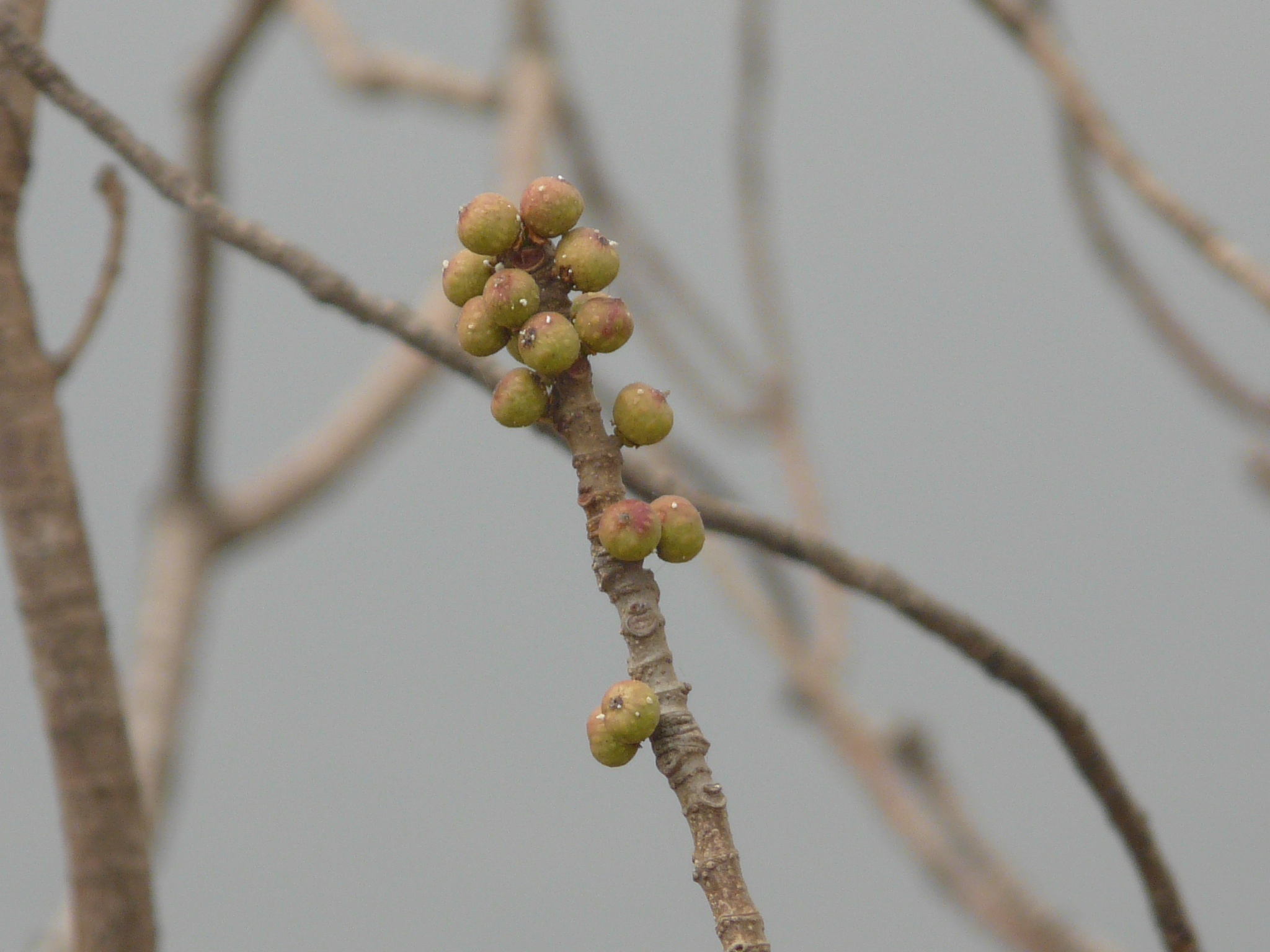 Moraceae (mulberry family) » Ficus religiosa L. FY-kus or FIK-us -- from Latin for Ficus carica, an edible fig ... Dave's Botanary re-lij-ee-OH-suh -- sacred ... Dave's Botanary commonly known as: holy fig tree, peepul, sacred fig tree • Assamese: আঁহত ahot, পিপ্পল pippol • Bengali: অশ্বত্থ asbattha • Gujarati: અશ્વત્થ asvattha, પીપળો piplo • Hindi: अस्वत्थ aswattha, पीपल pipal • Kannada: ಅರಳಿಮರ aralimara, ಅಶ್ವತ್ಥಮರ asvatthamara • Kashmiri: पिपल् pipal • Konkani: अश्वता रूकू ashvata ruku, पिंपळ pimpal • Malayalam: അരയാൽ arayal, പിപ്പലം pippalam • Manipuri: সনা খোঙনাঙ sana khongnang • Marathi: अश्वत्थ ashwattha, पिंपळ pimpala • Mizo: hmâwng • Nepali: पिपल pipal • Oriya: ଓସ୍ତ osta • Pali: अस्सत्थ assattha • Punjabi: ਪਿੱਪਲ pippal • Sanskrit: अश्वत्थ ashvattha, पिप्पल pippala • Tamil: அரசமரம் araca-maram, பிப்பலம் pippalam • Telugu: పిప్పలము pippalamu, రాగిచెట్టు ragichettu • Tibetan: a sba dtha • Tulu: ಅತ್ತಸಮರ attasamara • Urdu: پيپل pipal Native to: India, Nepal, Bangladesh, Myanmar, Pakistan, Sri Lanka, s-w China, Indochina; also cultivated References: Flowers of India • Wikipedia • ENVIS - FRLHT